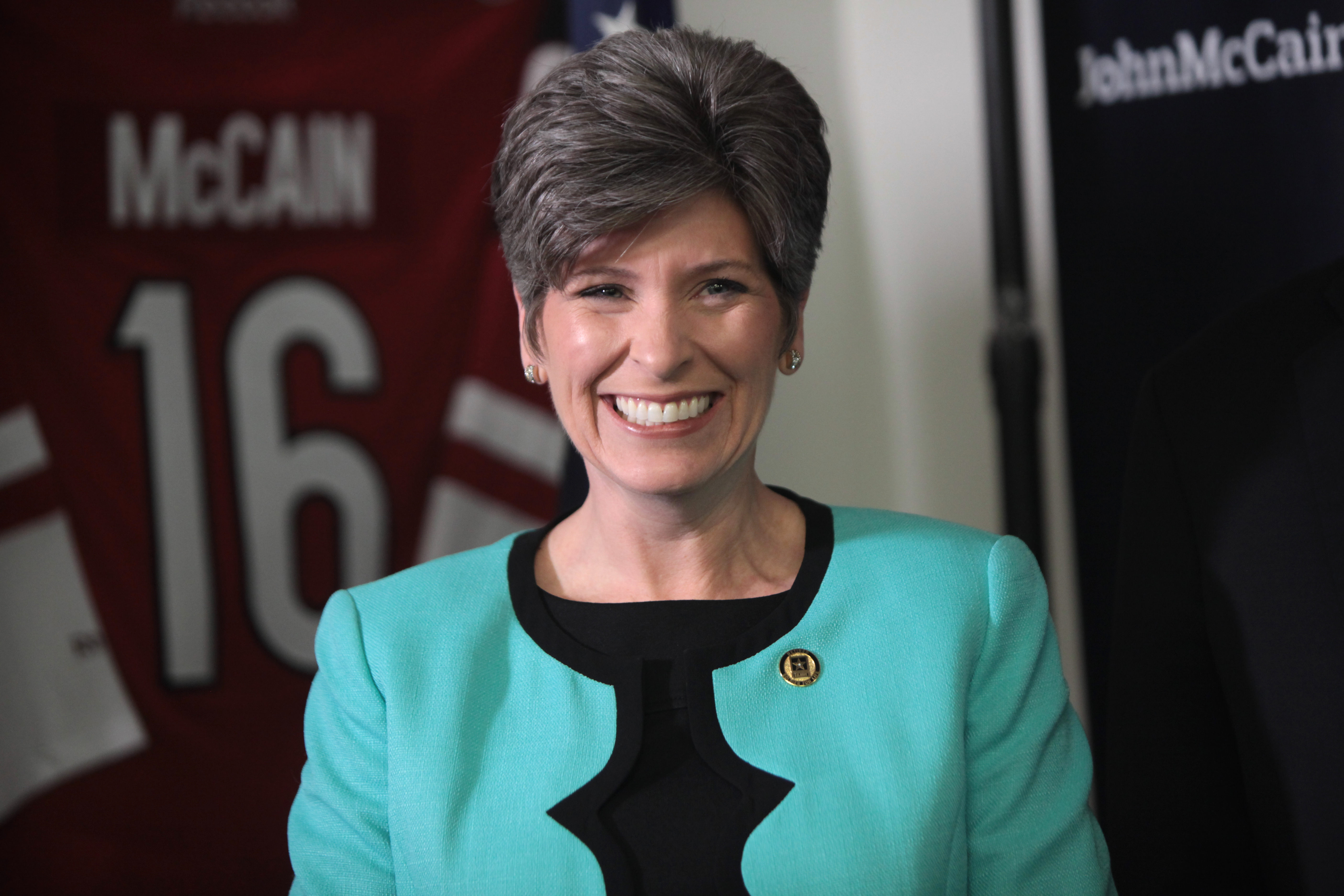 Joni Ernst speaking at a rally for John McCain in Phoenix, Arizona.